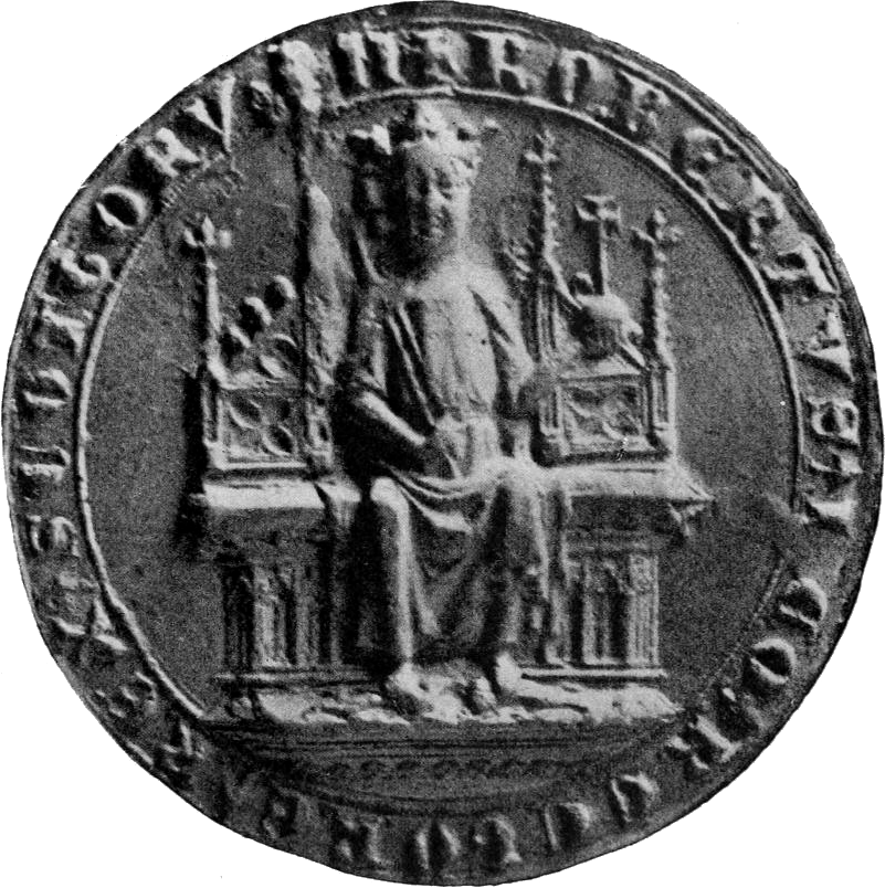 Seal of Robert I, King of Scotland (died 1329).